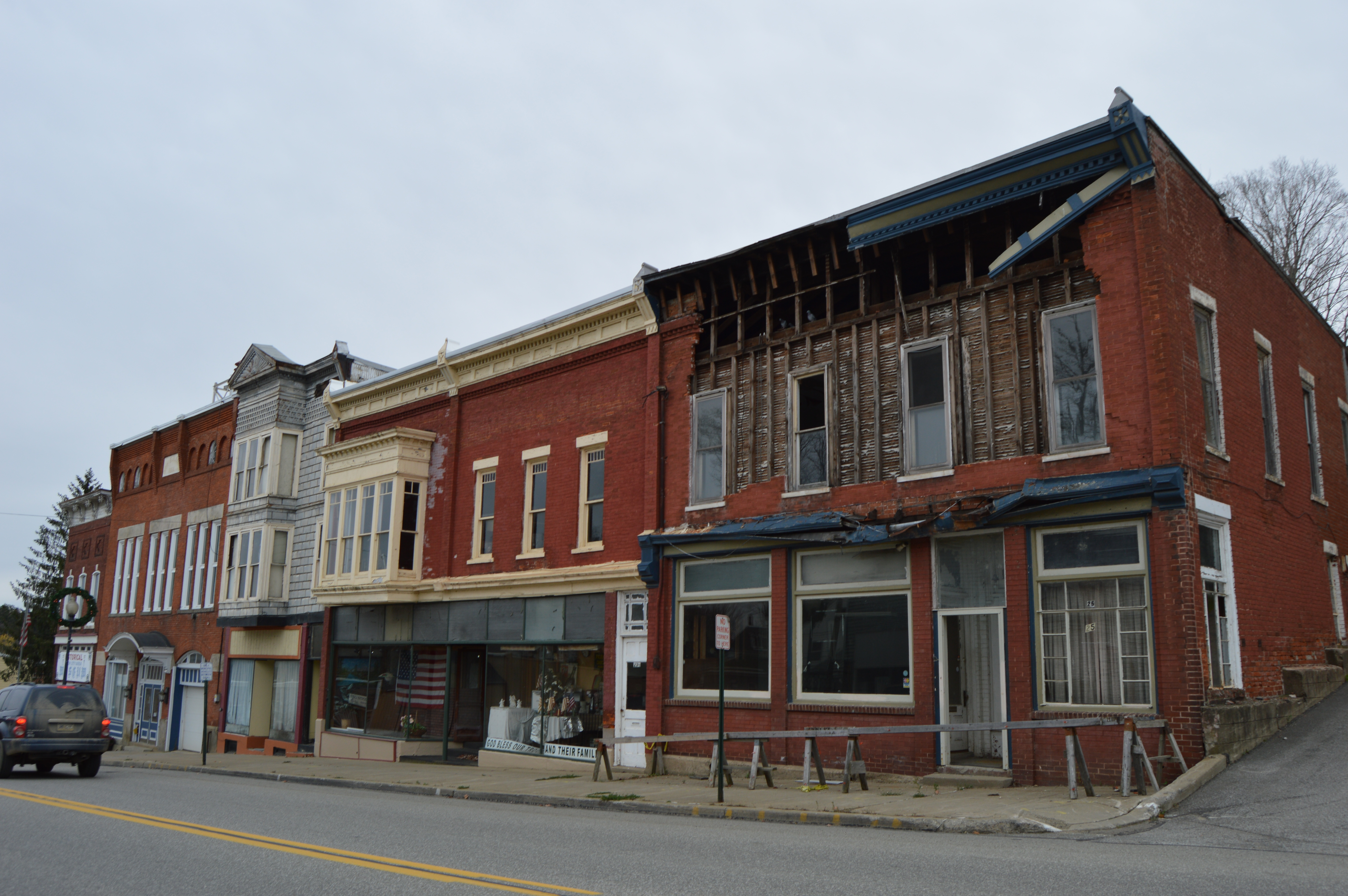 Buildings on the eastern side of Main Street (U.S. Route 6) north of the Bank Street intersection in Union City, Pennsylvania, United States. This block is a part of the Union City Historic District, a historic district that is listed on the National Register of Historic Places.